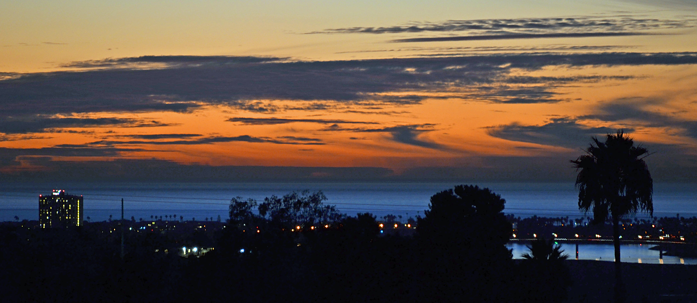 View of the sunset from the Linda Vista neighborhood of San Diego